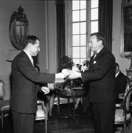 Photograph of the Finnish composer Erik Berman (left) receiving a prize of the Royal Swedish Academy of Music from the Swedish ambassador Gösta Engzell.